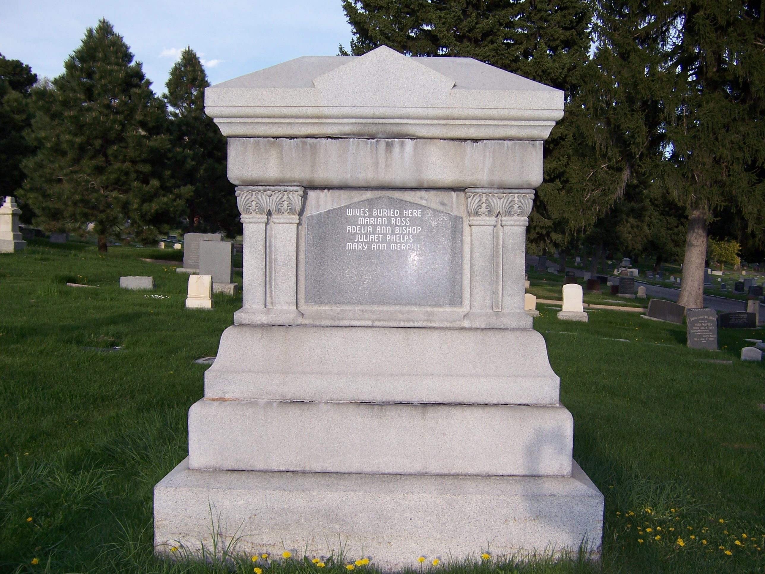 Back of grave marker of Orson Pratt, Sr., a leader in The Church of Jesus Christ of Latter-day Saints and an original member of the Quorum of Twelve Apostles in the Latter Day Saint movement.